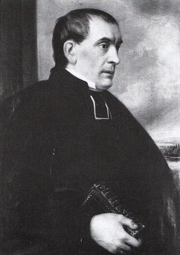 Portrait of the Dutch priest Paulus Antonius van Baer (1788-1855), priest of Saint Servatius and deacon of Maastricht, in 1837 co-founder with Elisabeth Gruyters of the Sisters of Mercy of Corolus Borromeus in Maastricht, the Netherlands.